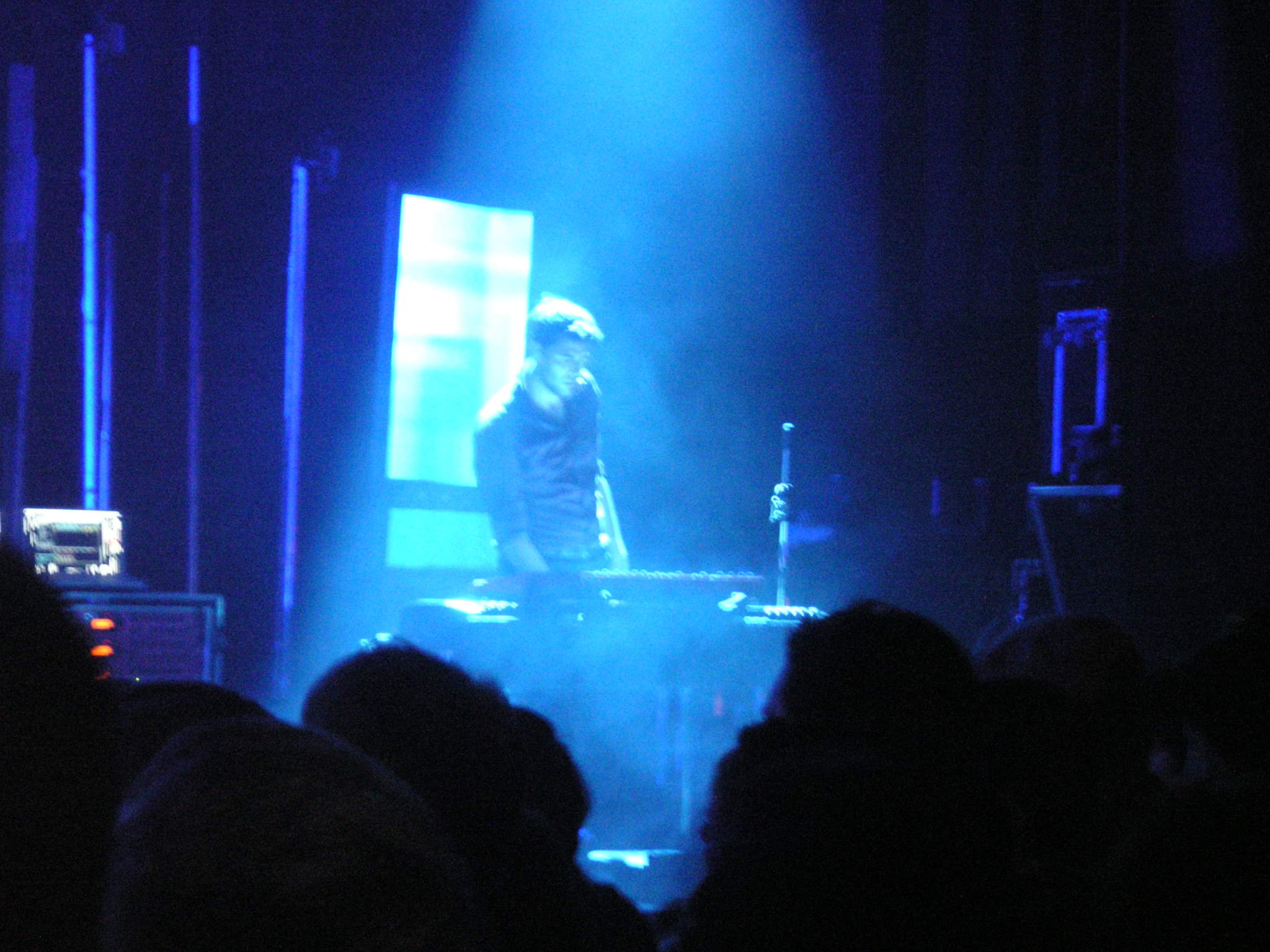 Tim Rice-Oxley during the concert